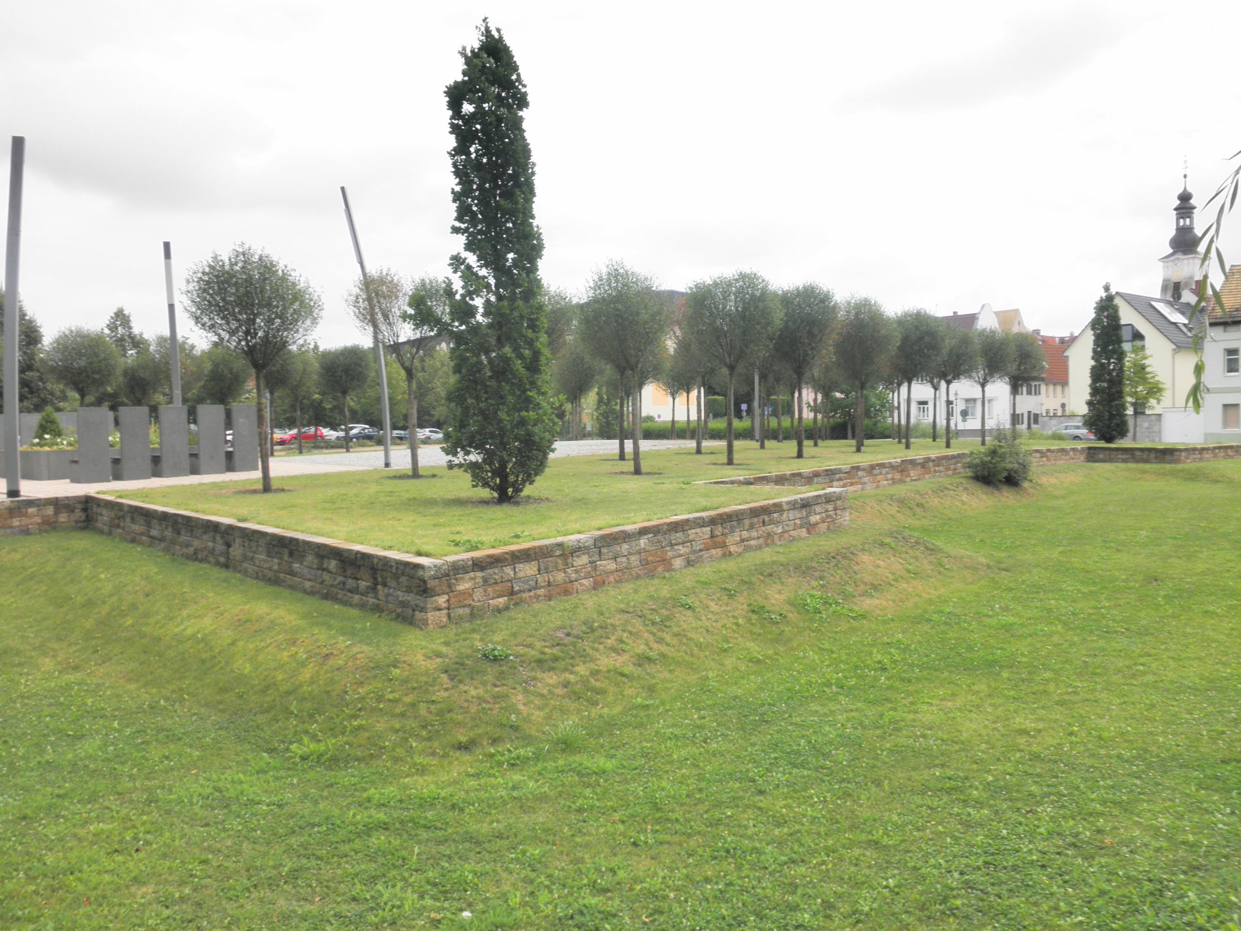 Location of former Castle in Meuselwitz in Thuringia